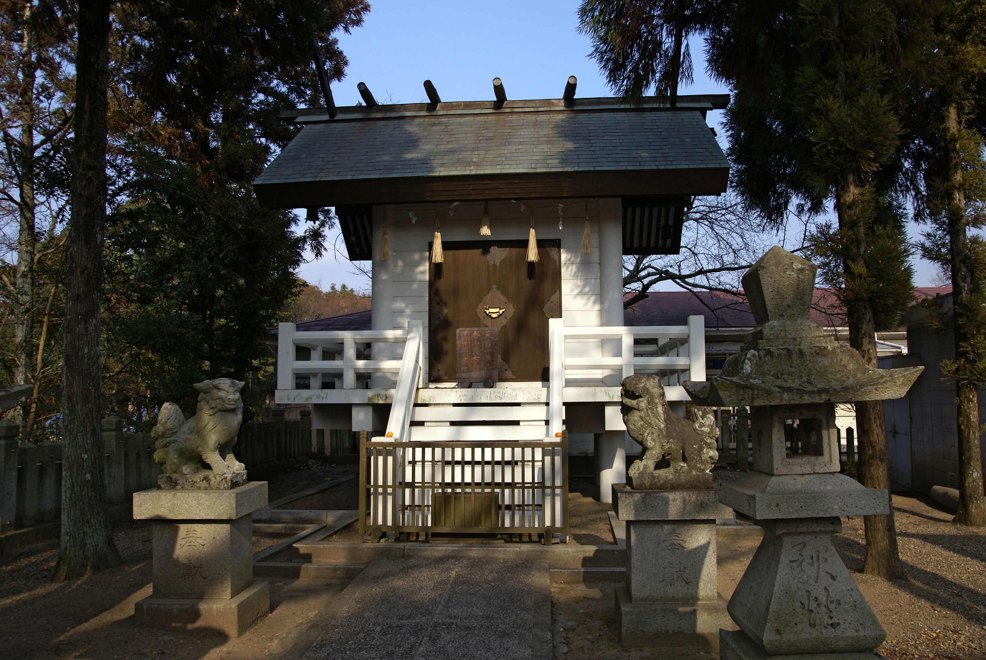 Kanamono-jinja in Miki, Hyogo prefecture, Japan